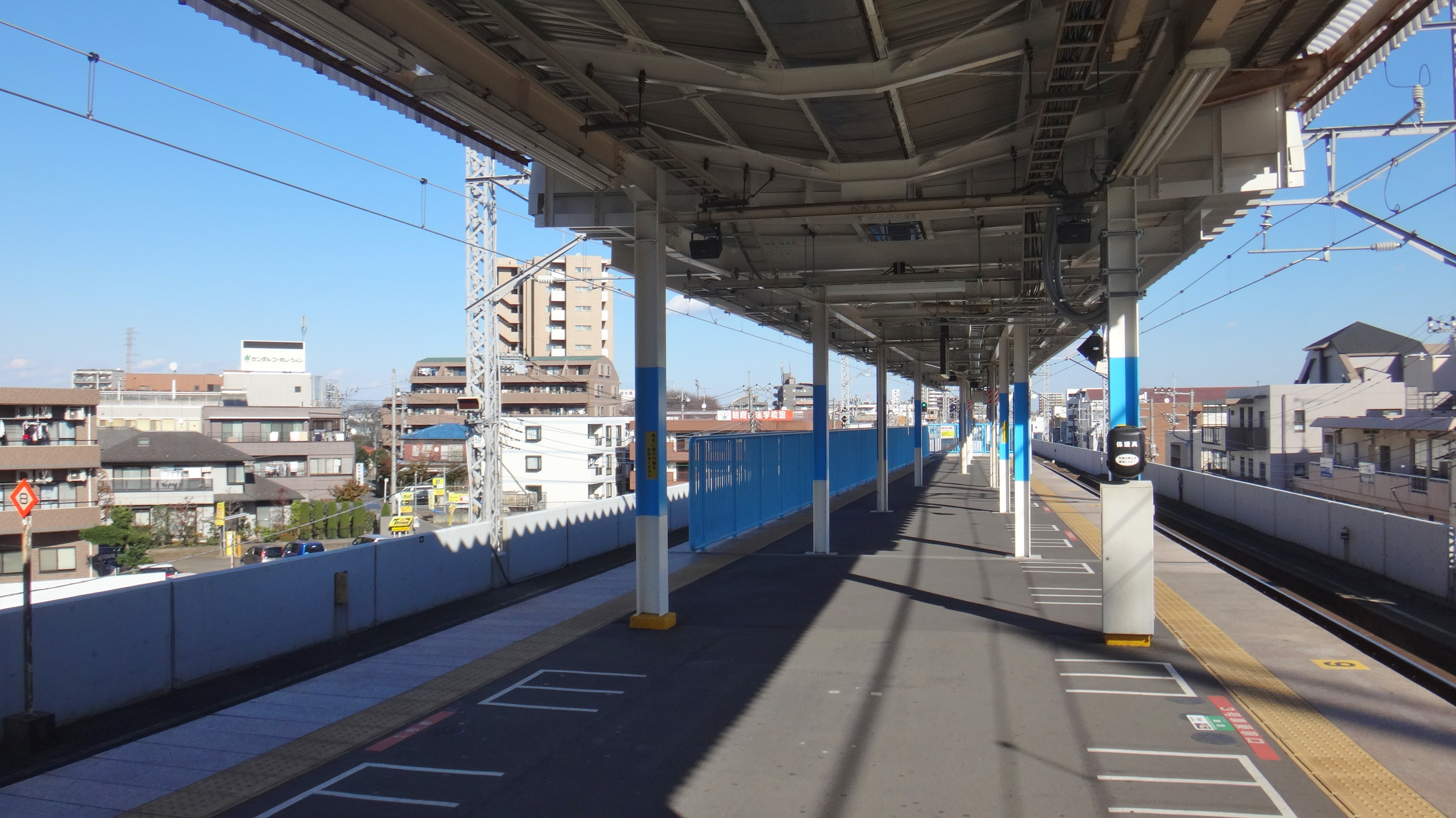 The east end of the platform at Kita-Asaka Station in Saitama Prefecture, Japan, showing the two-car length extension